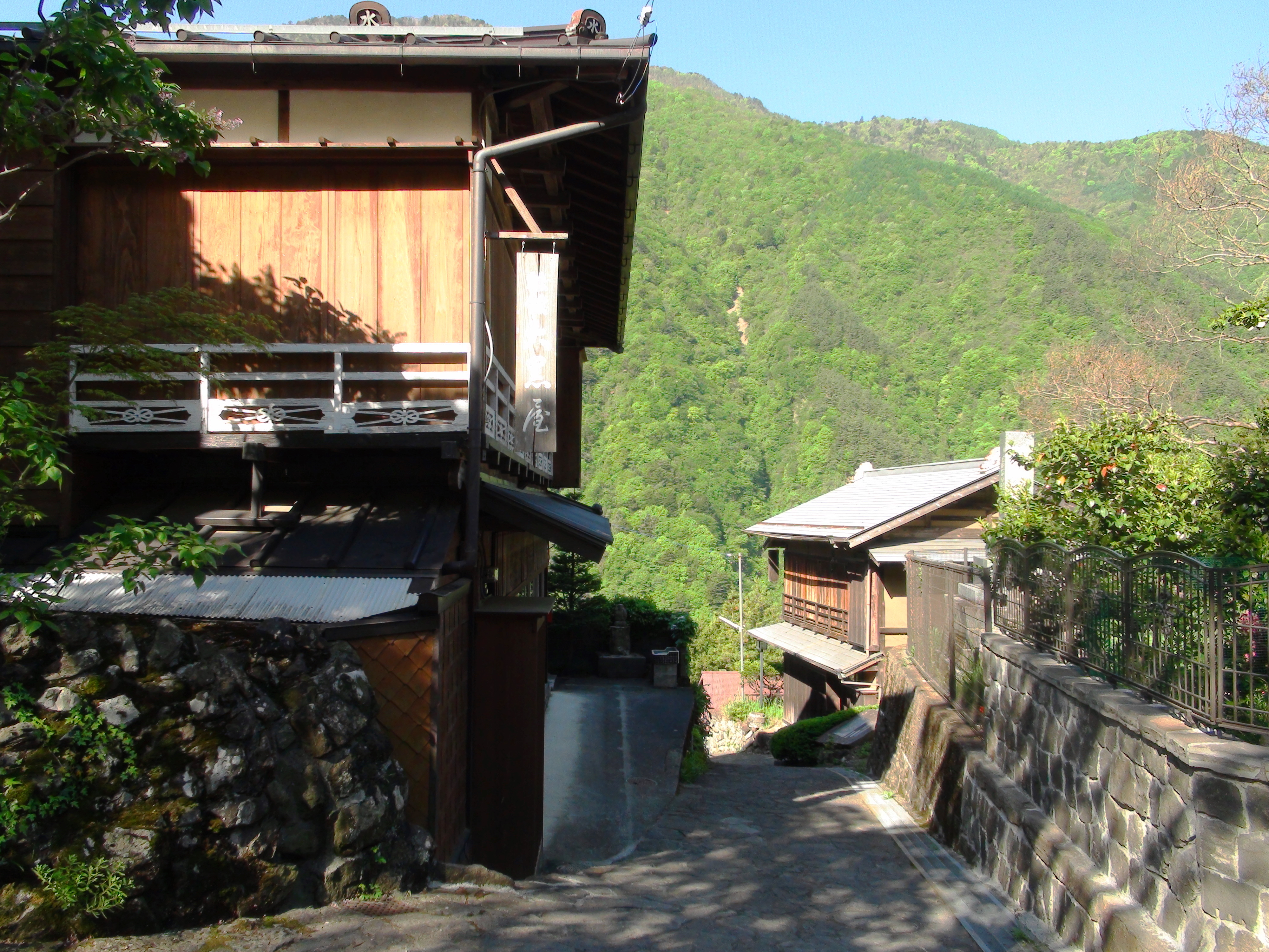 Stone pavement of Akasawa